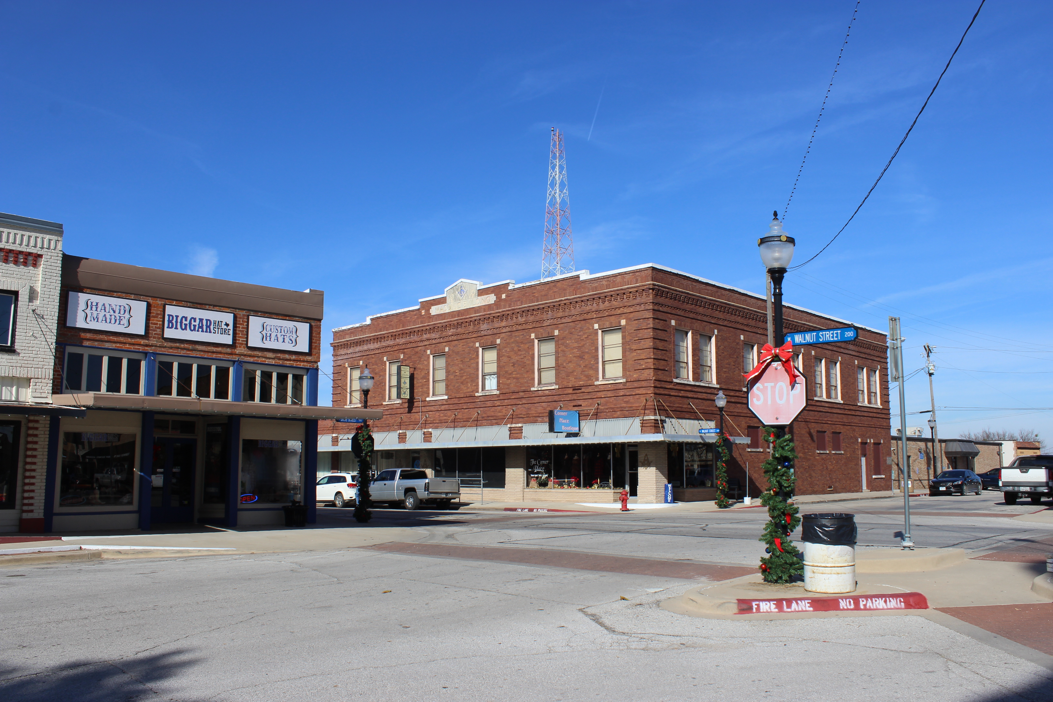 Downtown Decatur, Texas. Masonic Building shown in photograph.